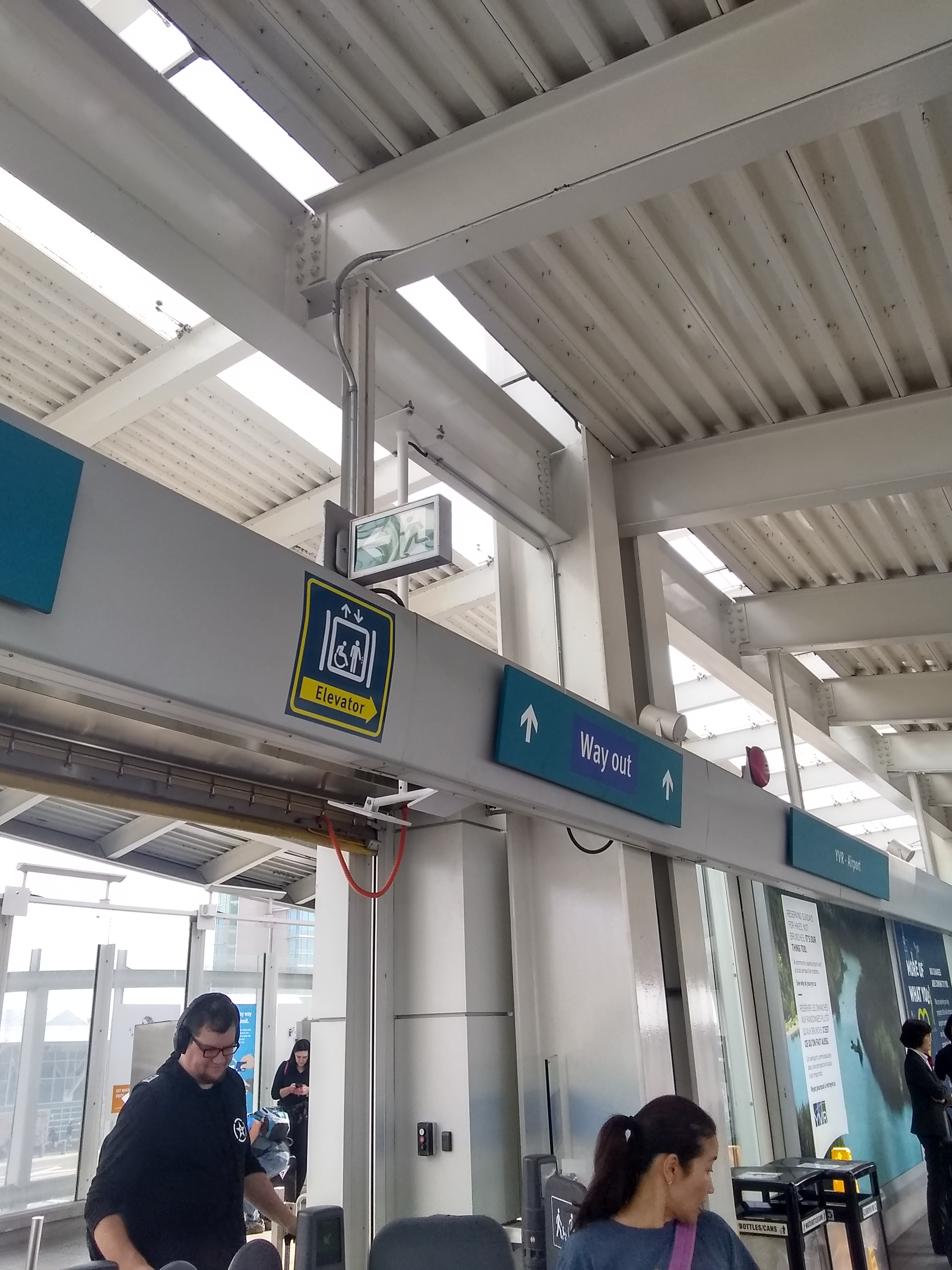 Various signage at the SkyTrain station